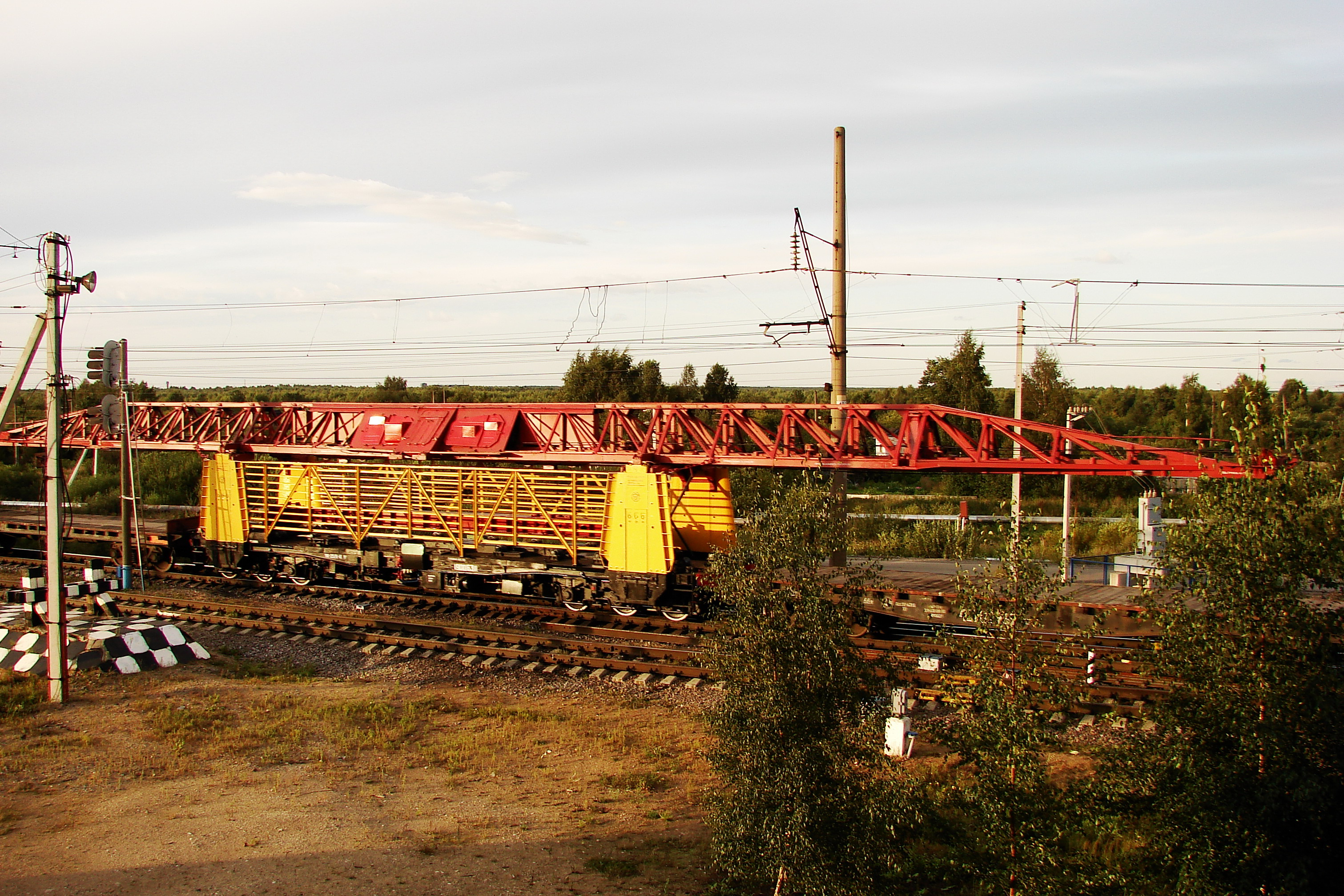 Track laying and renewal train